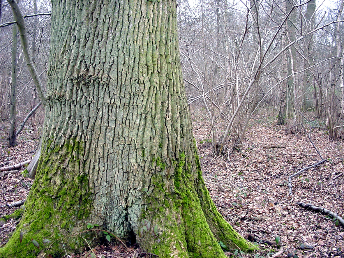 old oaks are not commons in this forest